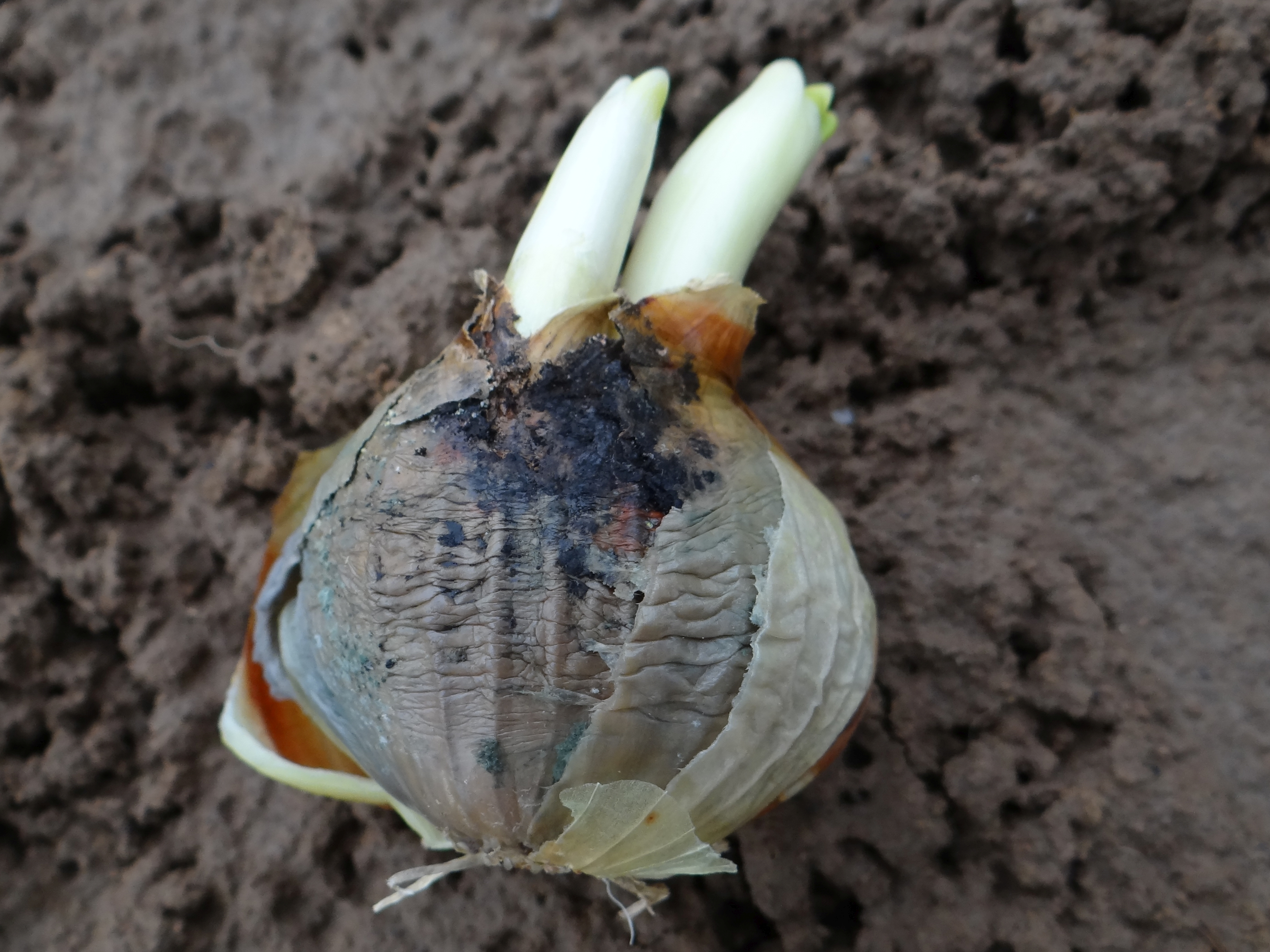 Botrytis allii on Allium cepa